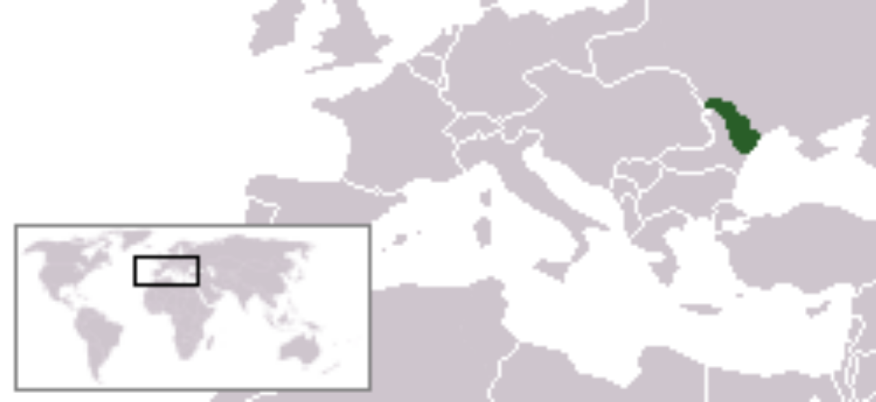 Location of the first moldovan republic, 1917